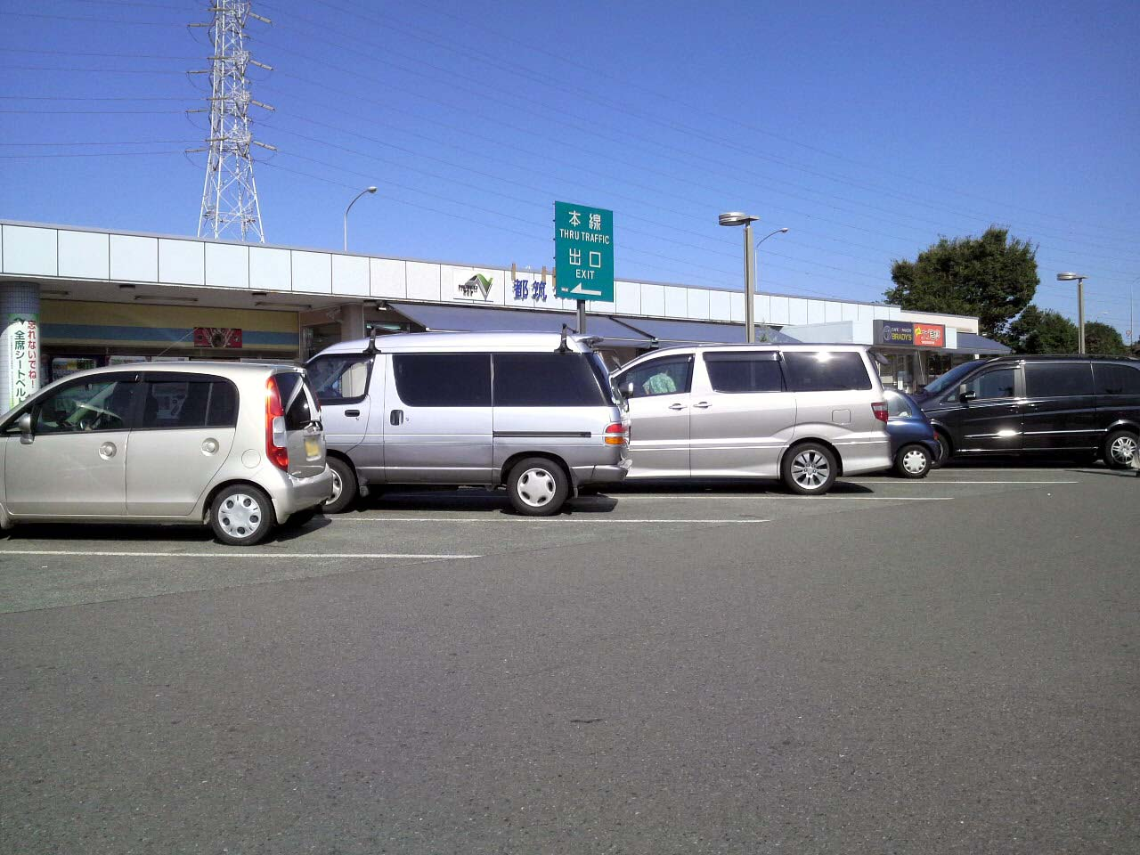 tuduki PA